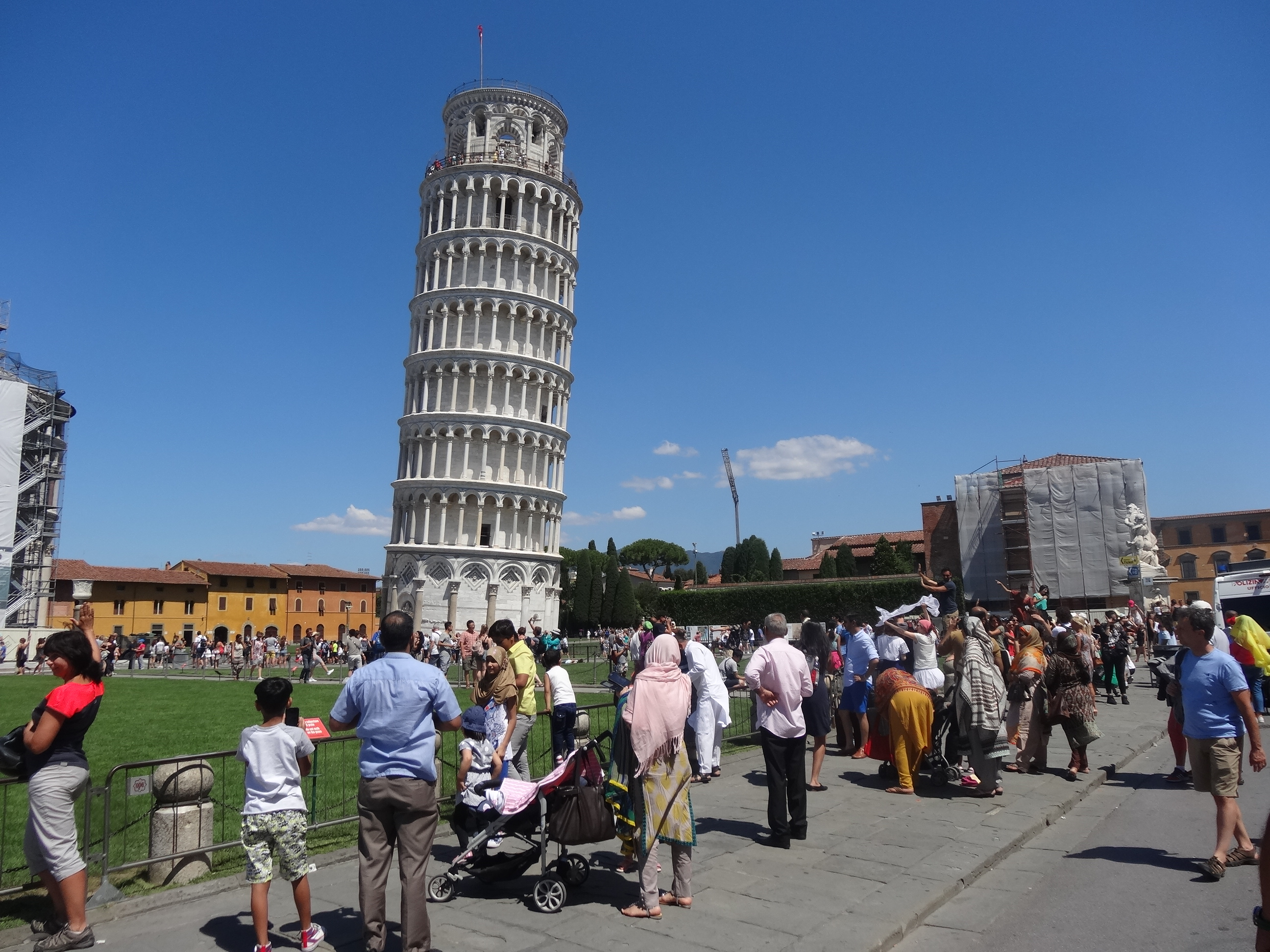 Leaning Tower (Pisa) - Exterior